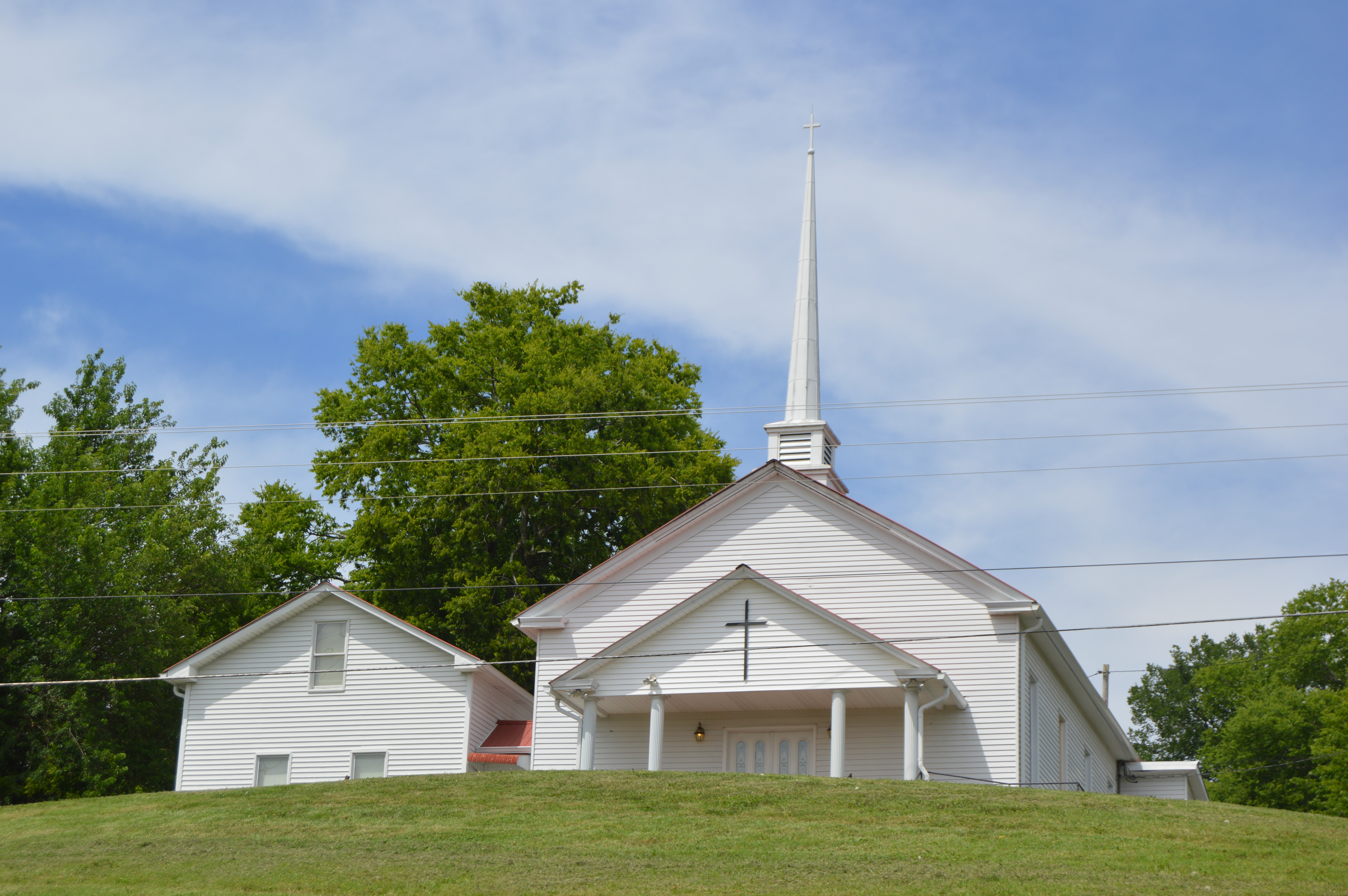 Front of the Grider United Methodist Church, located on 90 at Grider in Cumberland County, Kentucky, United States.